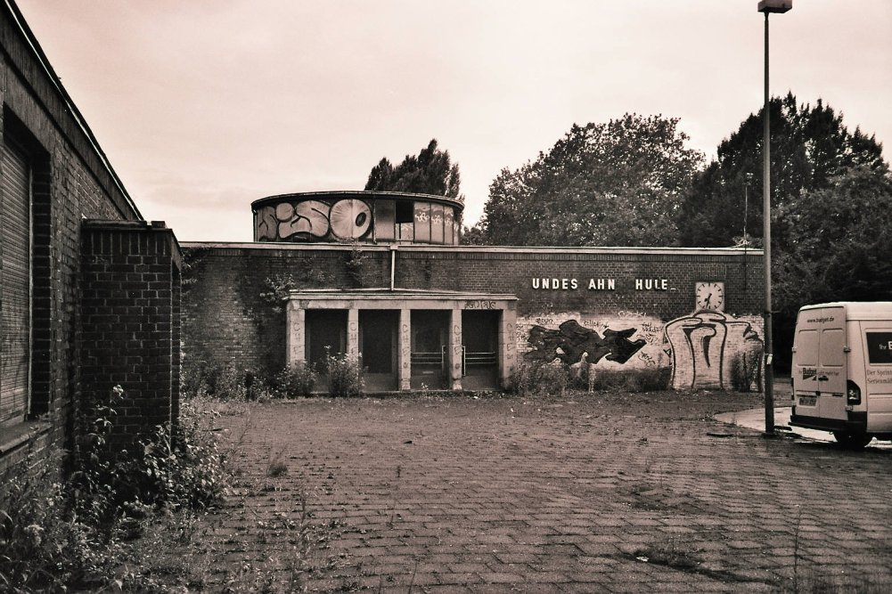 The formerly Katholikentagbahnhof in Bochum, Germany. Grounds of the former main train station, which was rebuilt at a downtown location in 1957. At the former site, there were some freight train tracks initially still in use, but now, with the decrease of mass transport, have fallen into disuse. Some buildings were used as a school for employees until 2005. From 2010 it works as an off-culture-hotspot, run by Leonardo Bauer: "Rotunde".